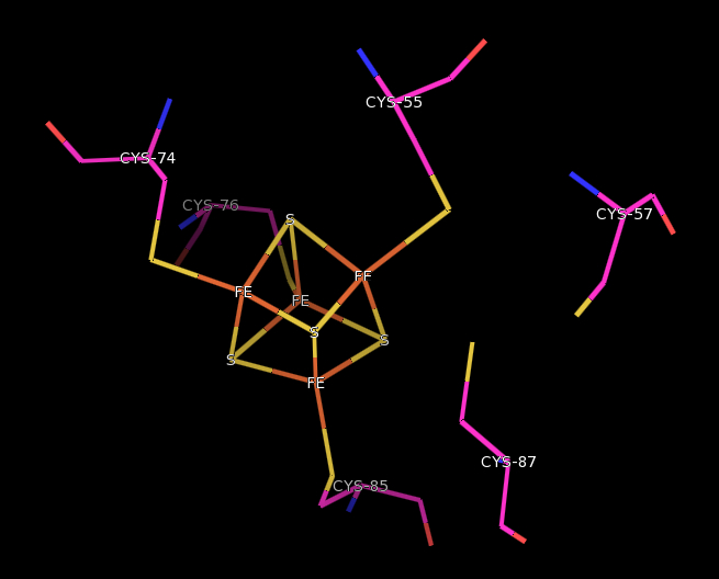 Pymol-generated image shows integral pieces of Ferredoxin-thioredoxin reductase's catalytic chain. Ferredoxin-thioredoxin reductase mechanism proceeds through redox chemistry of a 4Fe-4S cluster and surrounding Cysteine residues.